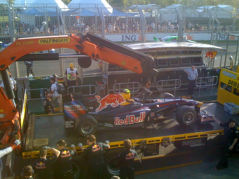 Seb Vettel's car finds it's way home. #melbf1 practice.